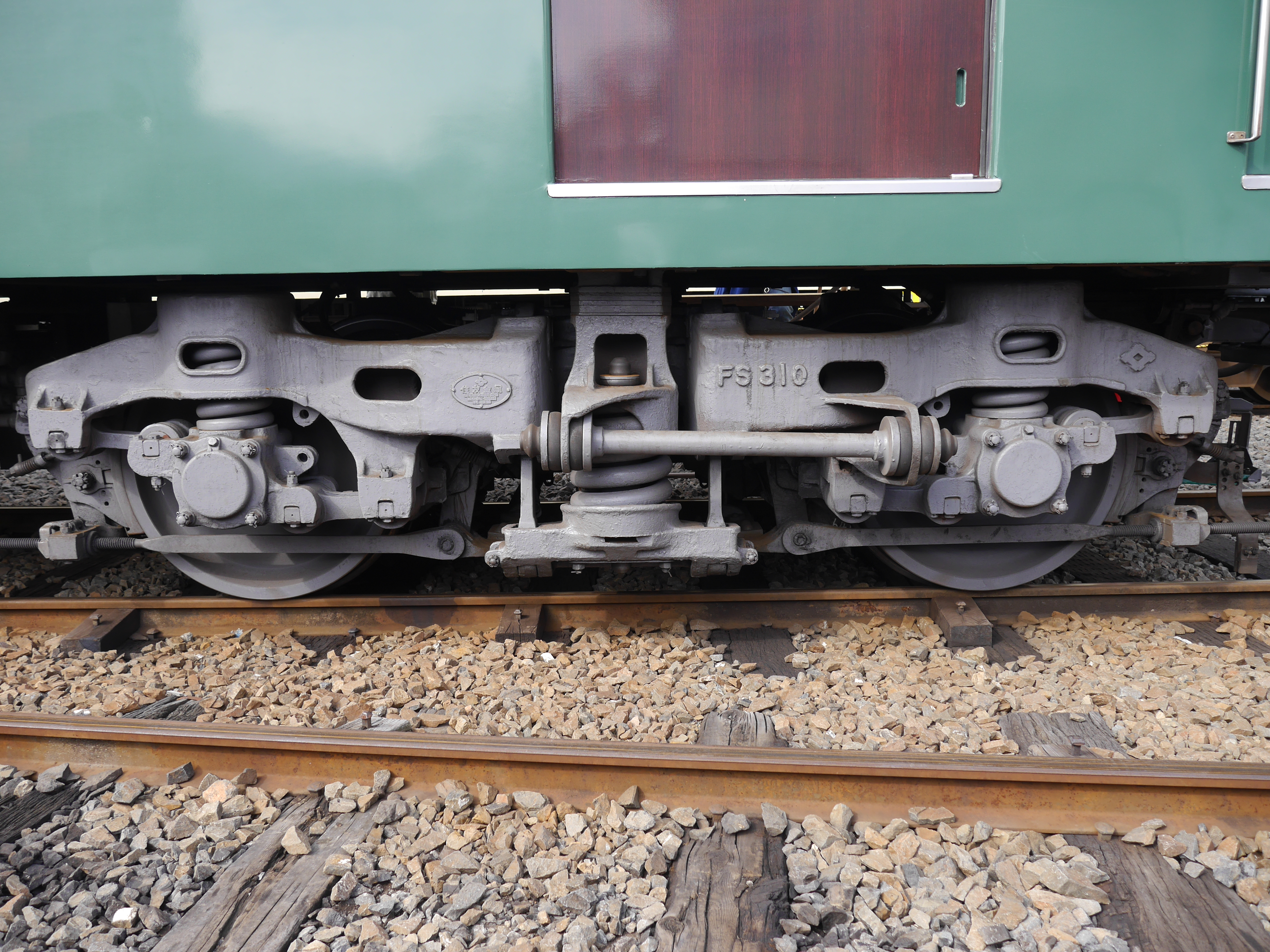 FS310 bogie truck on Eizan Railway 731